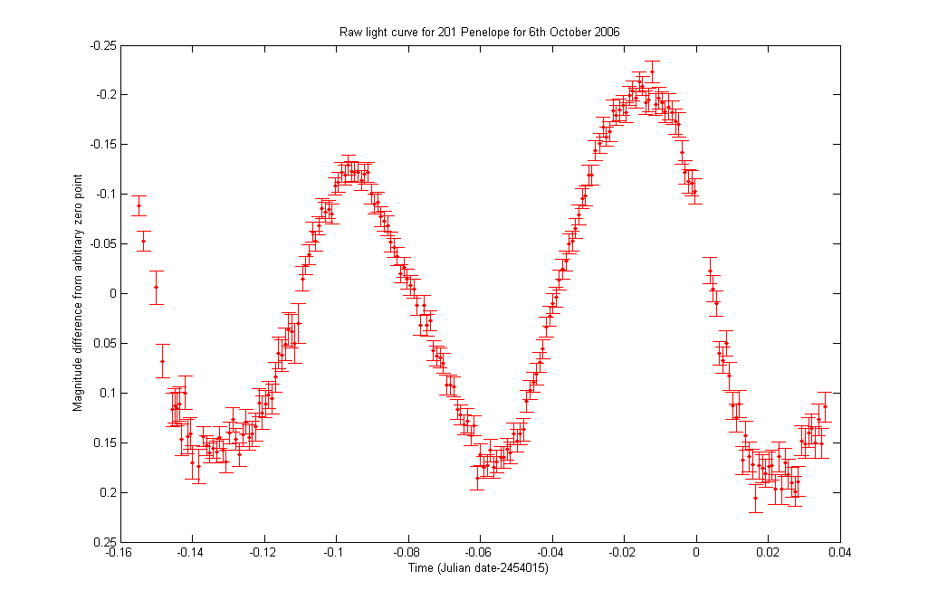 Light curve of the asteroid 201 Penelope based on images taken on 6 October 2006 at Mount John University Observatory. The bottom scale is in days and one full rotation runs from about -0.14 to 0.02 (or about 3.7 hours). The light curve has two maxima and two minima because 201 Penelope has (to the first order) an ellipsoid shape. It rotates about its short axis, so the minima are when we see it end on, while the maxima are when we see it side on. Created using Matlab.